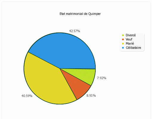 Married state of Quimper